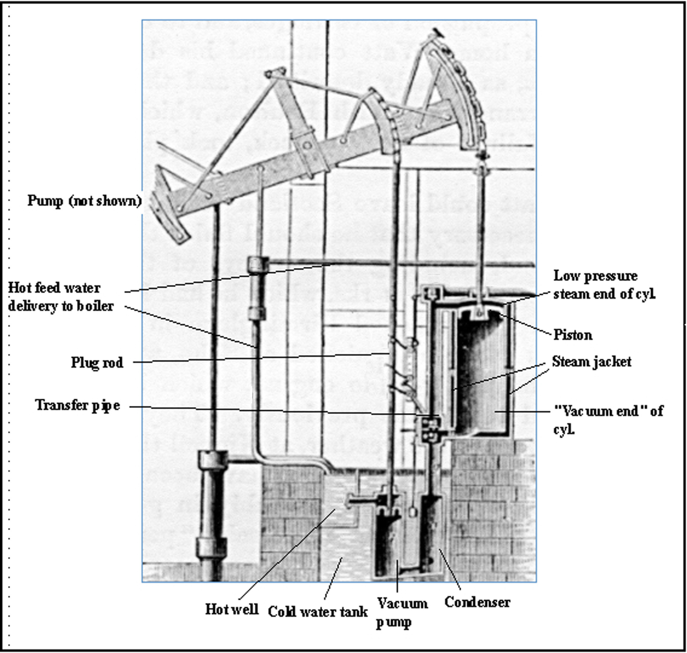 A schematic of Watt's steam engine printed in a 1878 book.